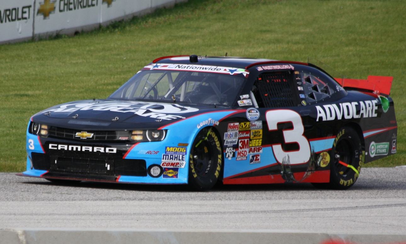 The NASCAR Nationwide car of Austin Dillon during the w:2013 Johnsonville Sausage 200 at Road America. He ended up winning the series championship that season.